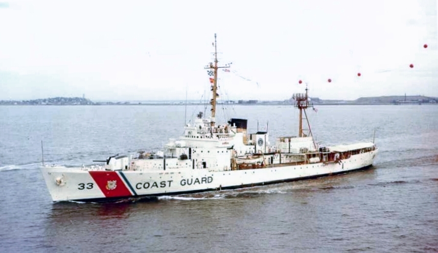 The U.S. Coast Guard cutter USCGC Duane (WHEC-33) steaming home after completing her tour of duty in Vietnam. Note the "homeward bound" pennant fluttering from her foremast, suspended in the air by helium-filled balloons. The Duane permanently departed Vietnamese waters on 28 July 1968. By the time she had returned to the U.S., Duane had been underway for a total of 226 days and steamed over 110,000 km.